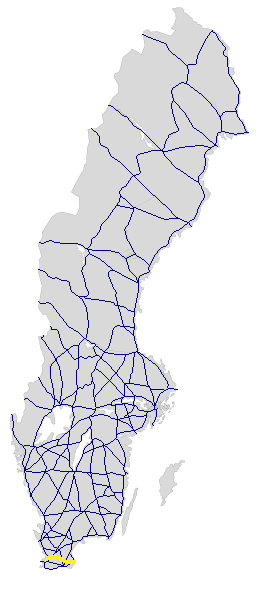 Sweden's network of National routes (roads), cities and road numbers not shown. Based on a blank map. For info on how to easiest edit the map see SWE-Map Documentation